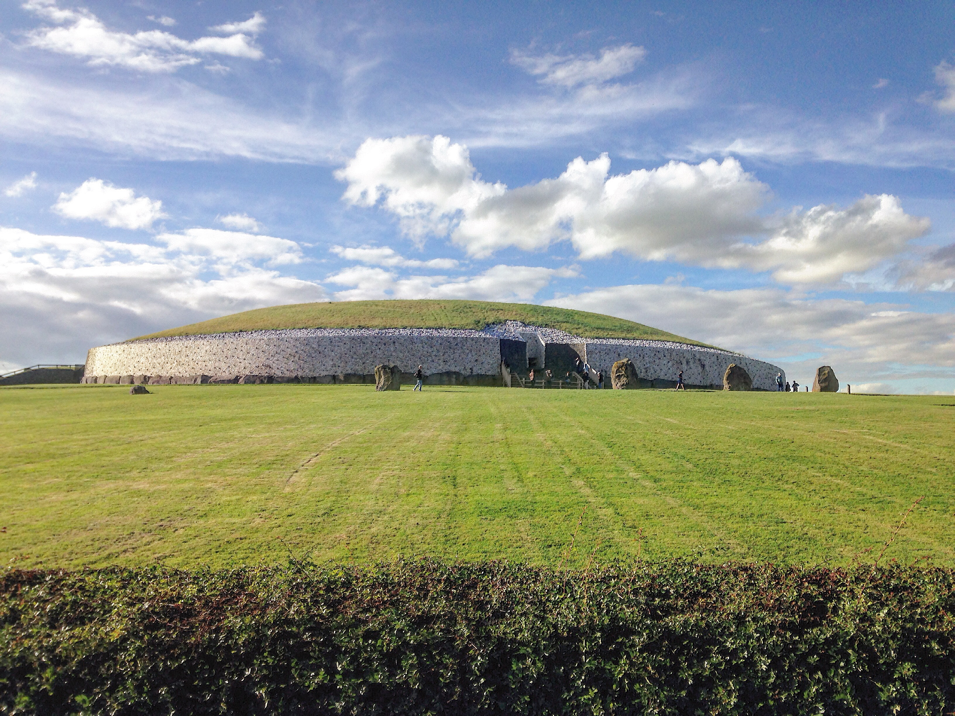 A front view of the Newgrange monument taken from outside the grounds